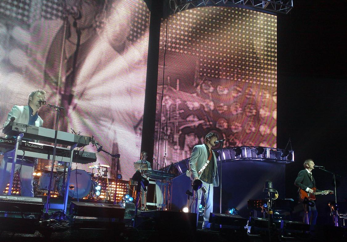 a-ha live at Palacio Vistalegre, Madrid (October 14, 2010).